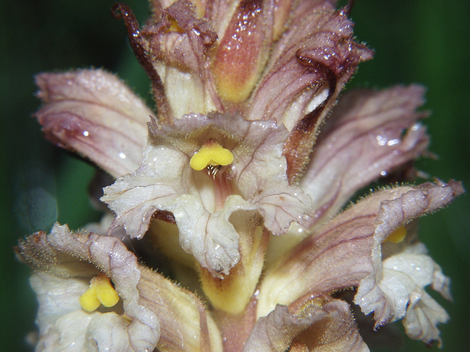 Orobanche lutea, Unteres Illertal, Germany